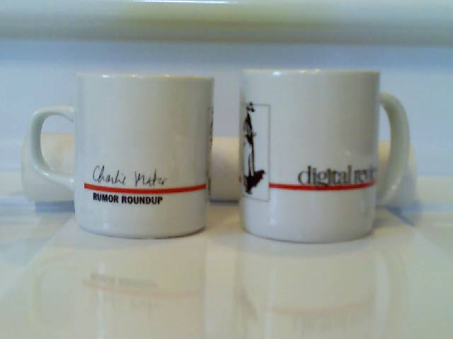 Two examples of Digital Review's "Charlie Matco Rumor Roundup" coffee mug. Photo taken by John Kafalas, . (The signature is that of then managing edtior Deborah McDonald